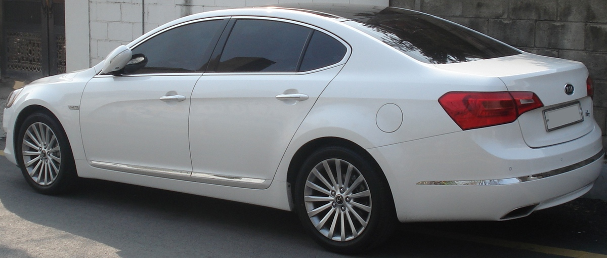 Kia K7